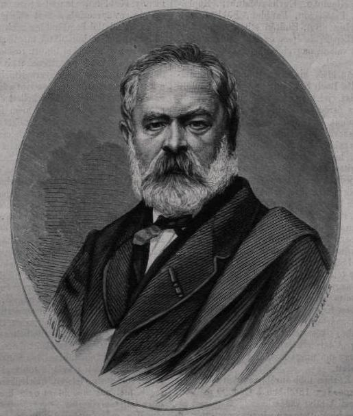 Portrait of Ferenc Storno